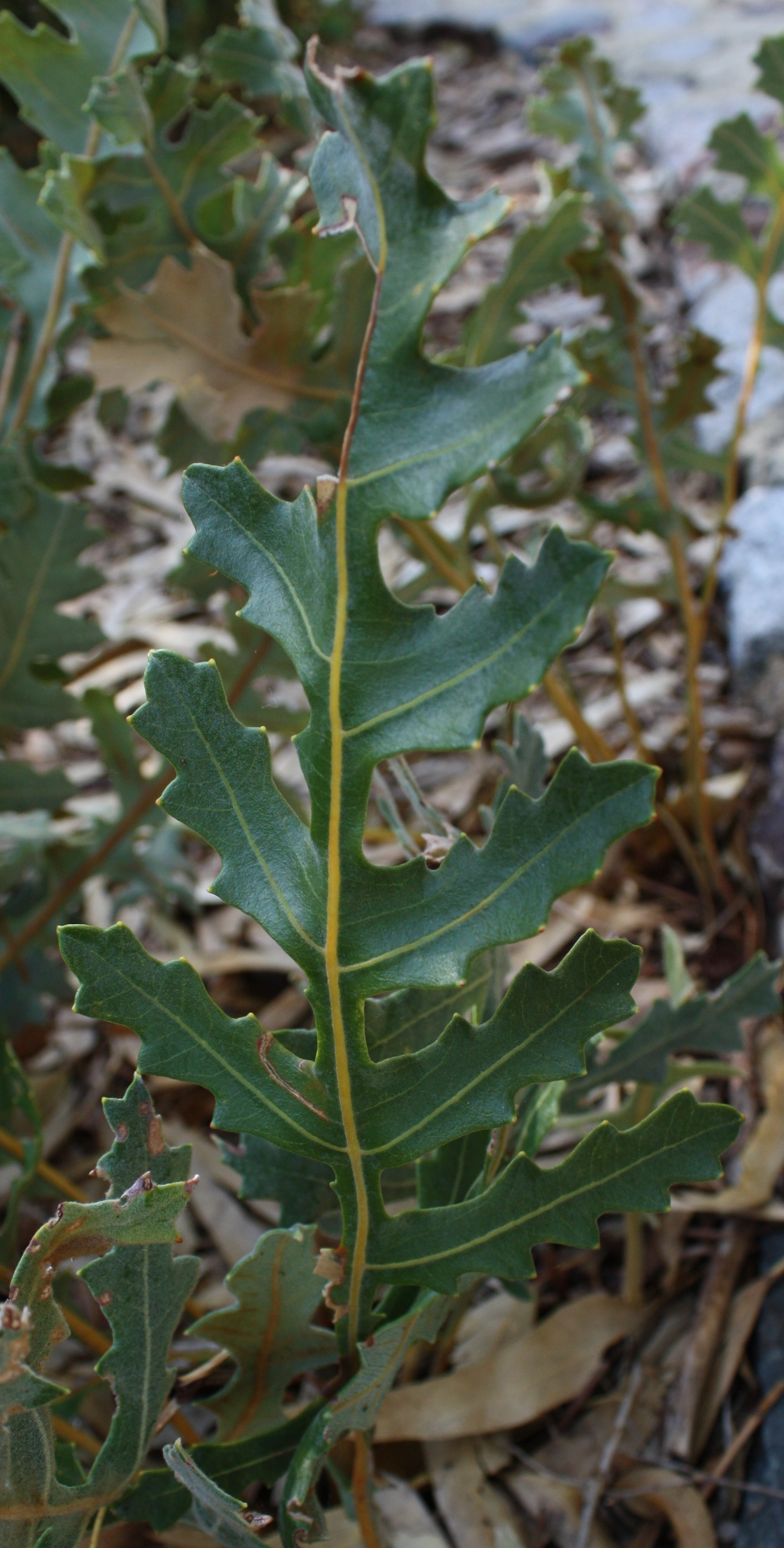 Foliage of Banksia repens, in cultivation, Kings Park, Perth, Western Australia